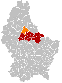 Own edit of Kanton DiekirchLocatie.png